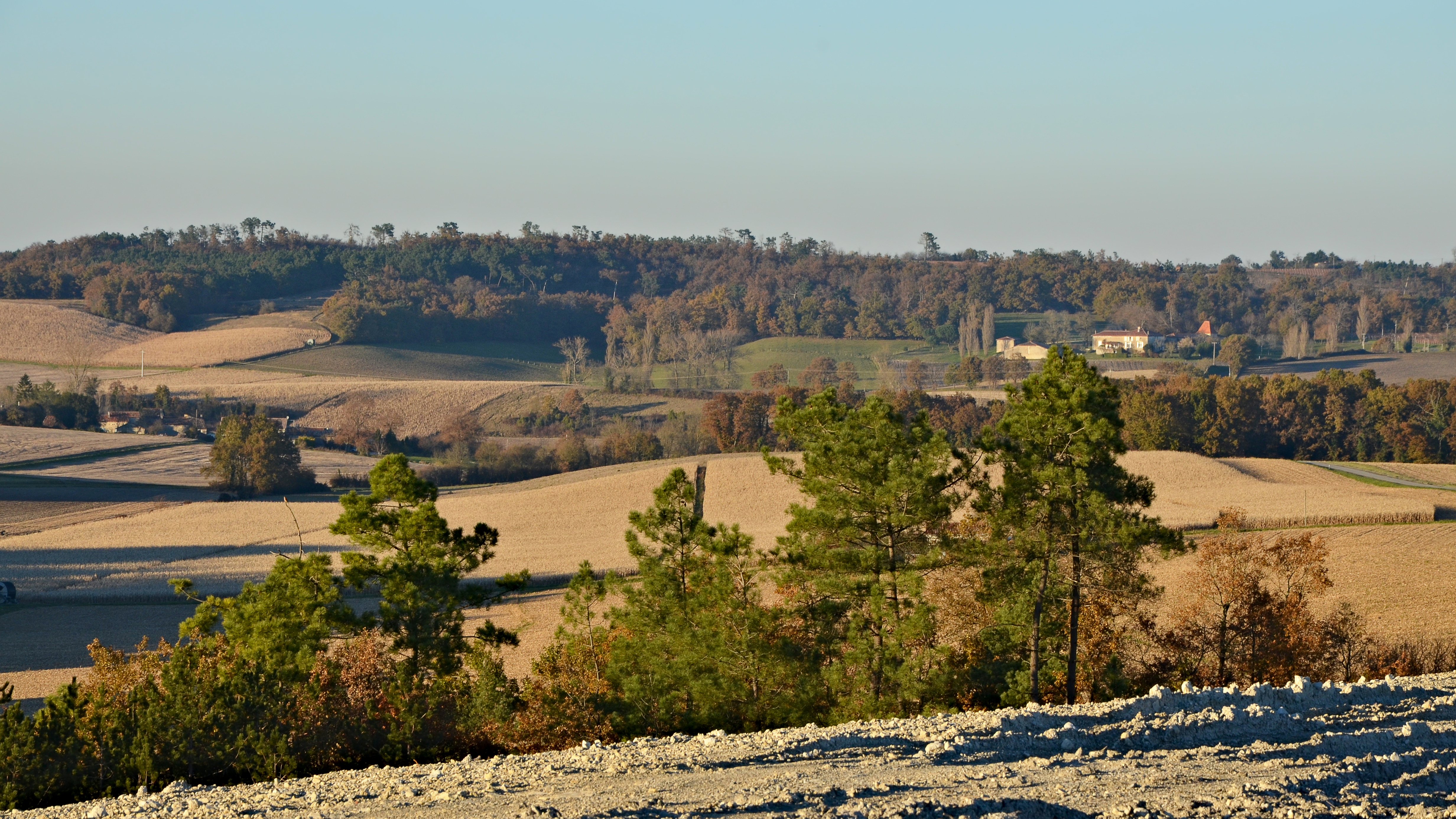 Hills looking NNW, with corn fields and woods, Sainte-Souline, Charente, France.